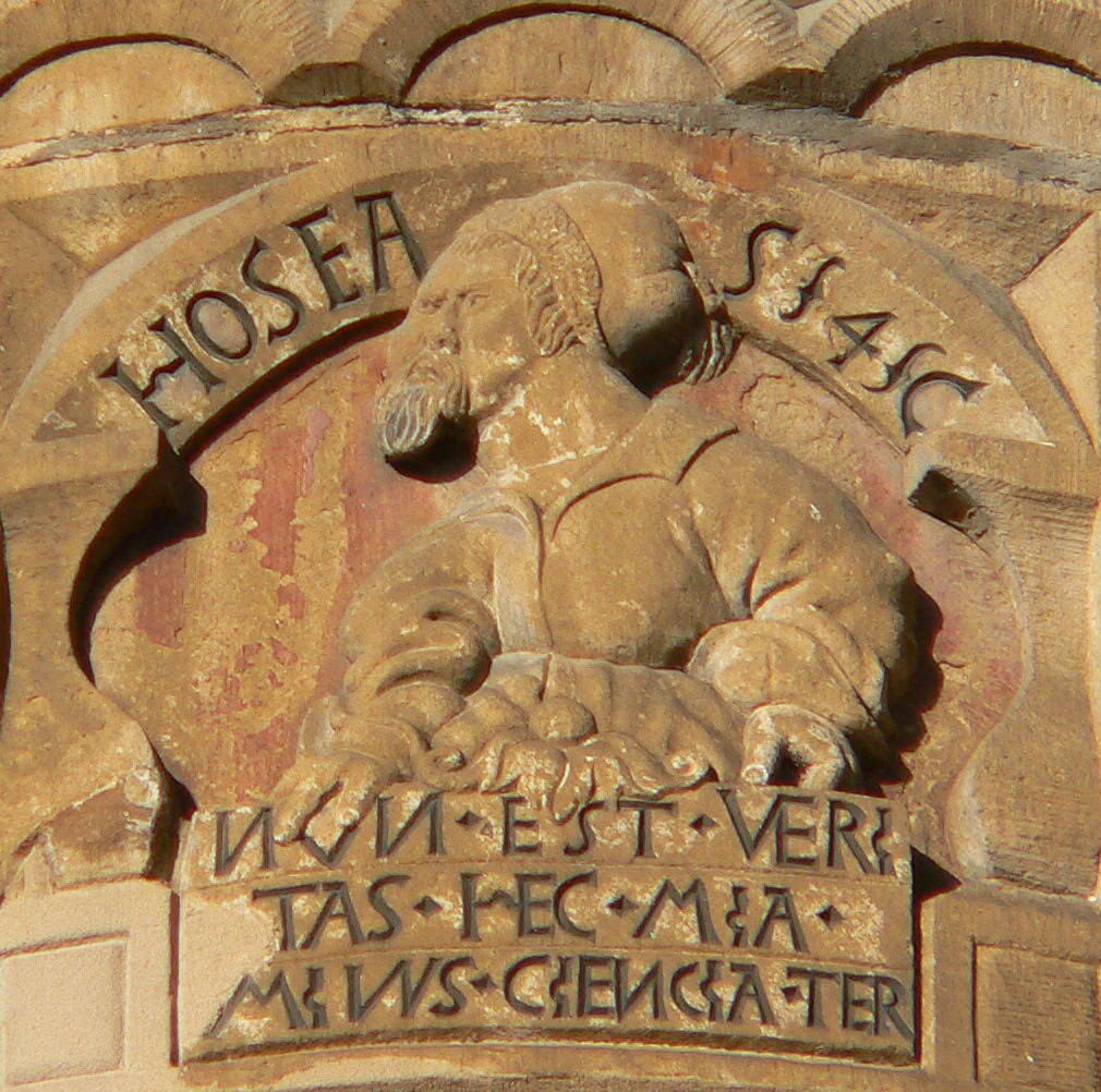 Prophet Hosea on the "Käthchenhaus" of Heilbronn/Germany